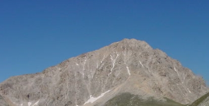 Peak of the mountain Gran Sasso, Italy